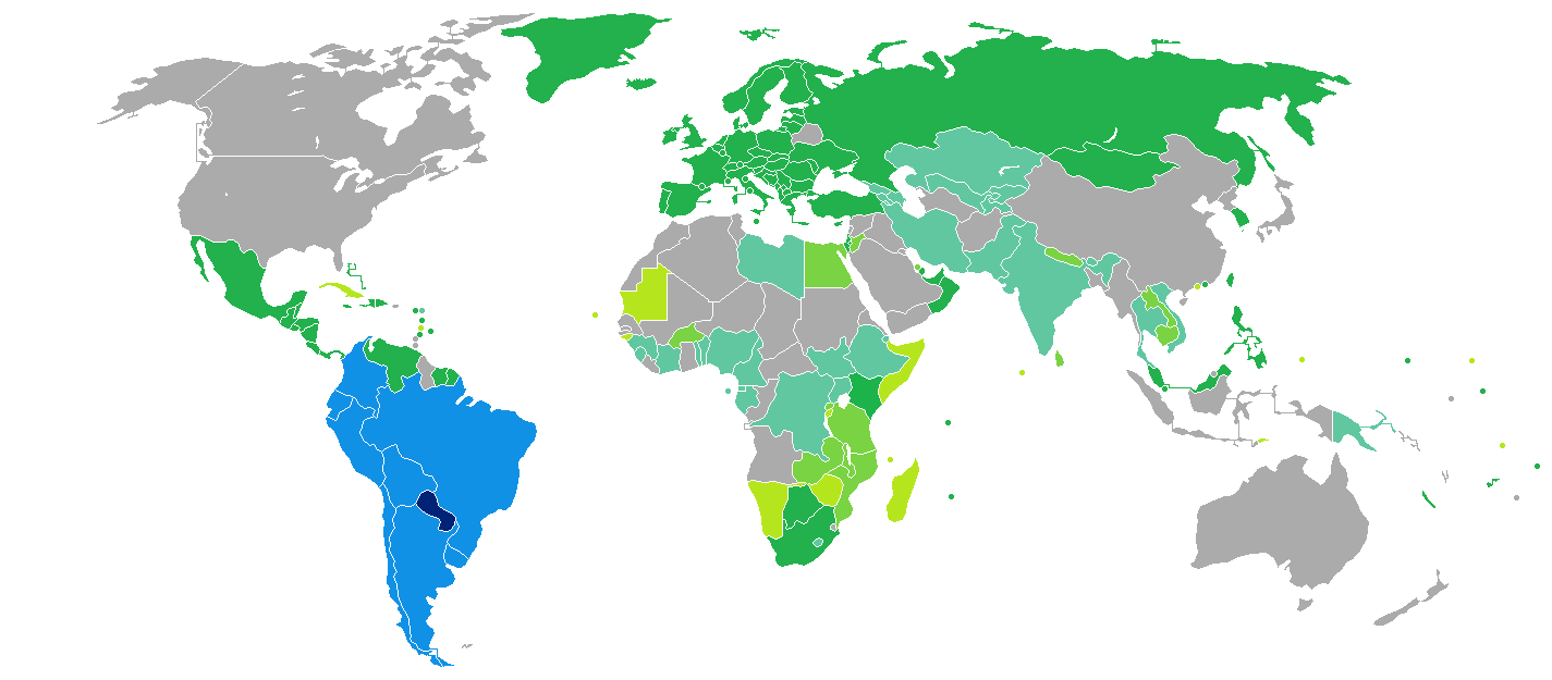 Visa requirements for Paraguayan citizens Paraguay ID card travel Visa free access Visa on arrival eVisa Visa available both on arrival or online Visa required